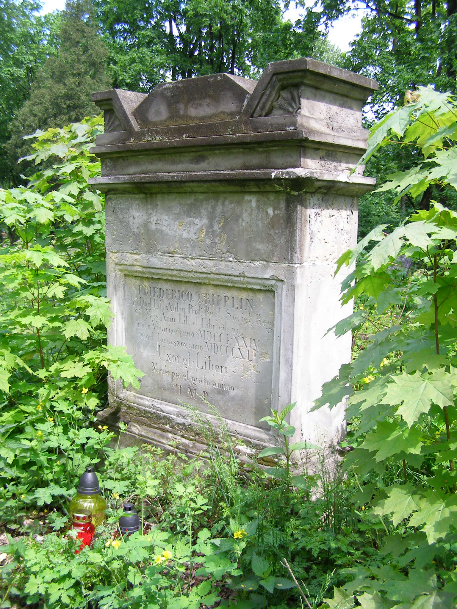 Friedrich Tripplin's Grave, Protestant Cemetery in Tomaszów Mazowiecki (2007)